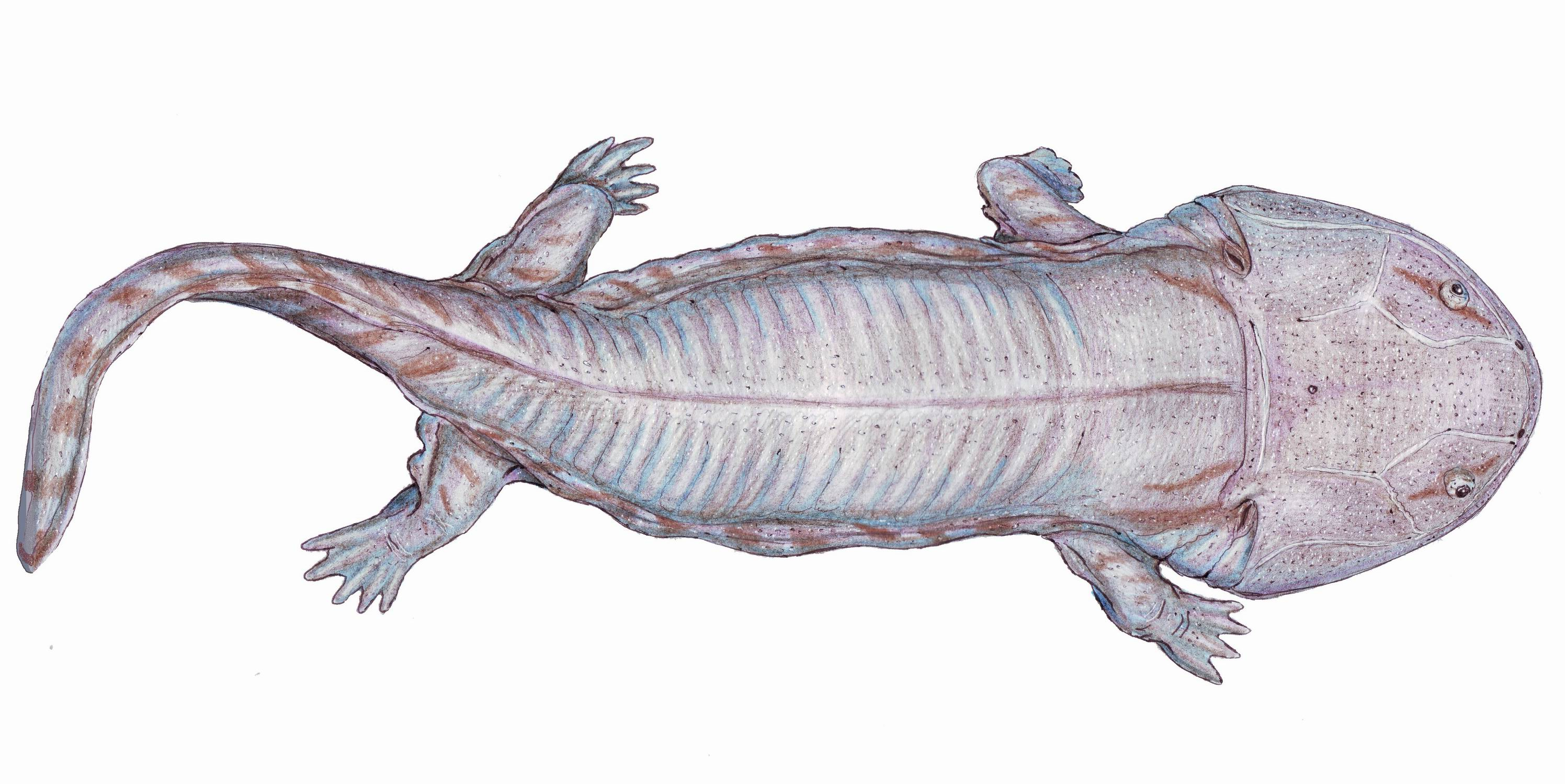 Siderops kehli - giant brachyopid from Early Jurassic of Australia